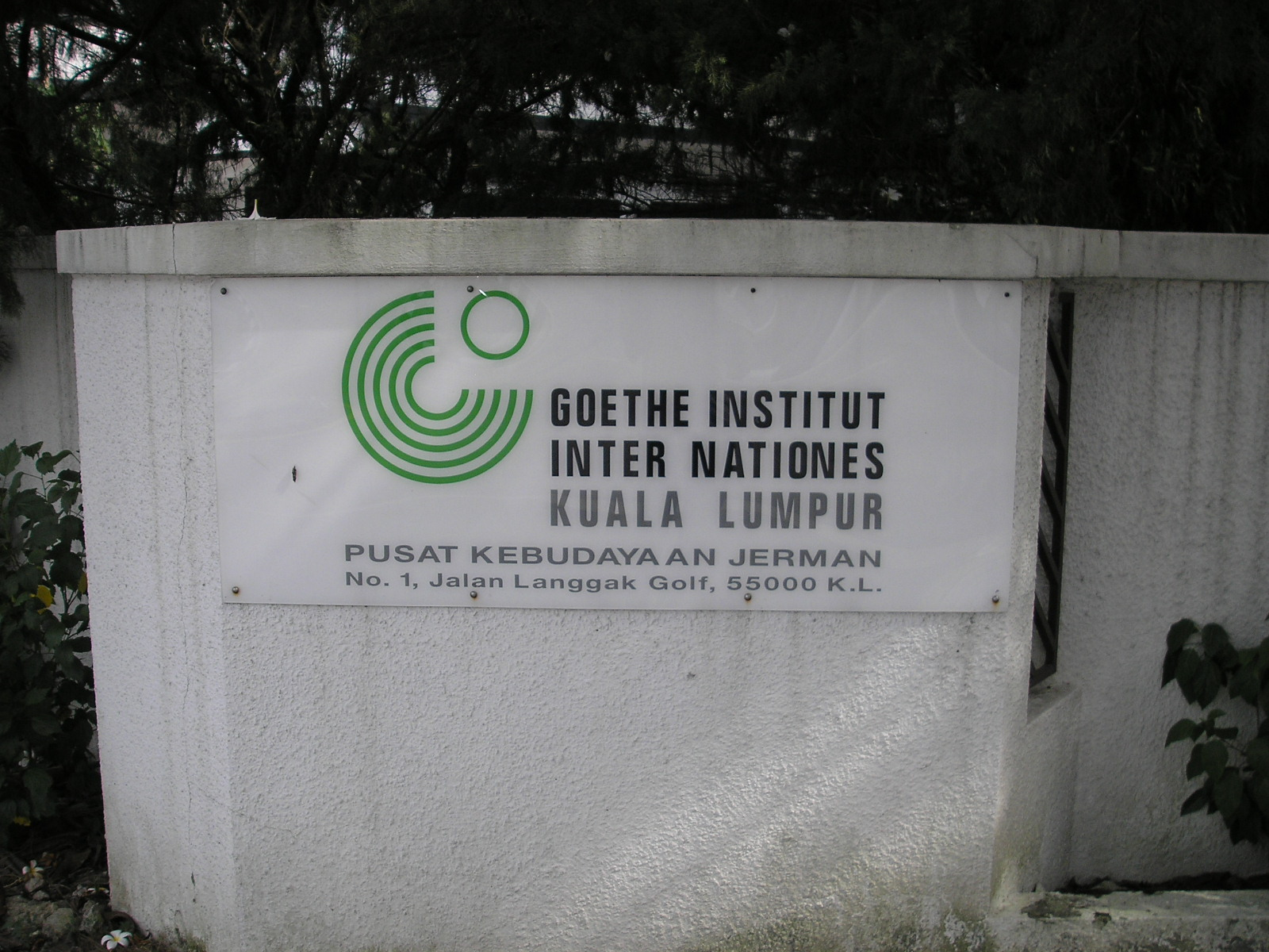 The Goethe-Institut in Kuala Lumpur.